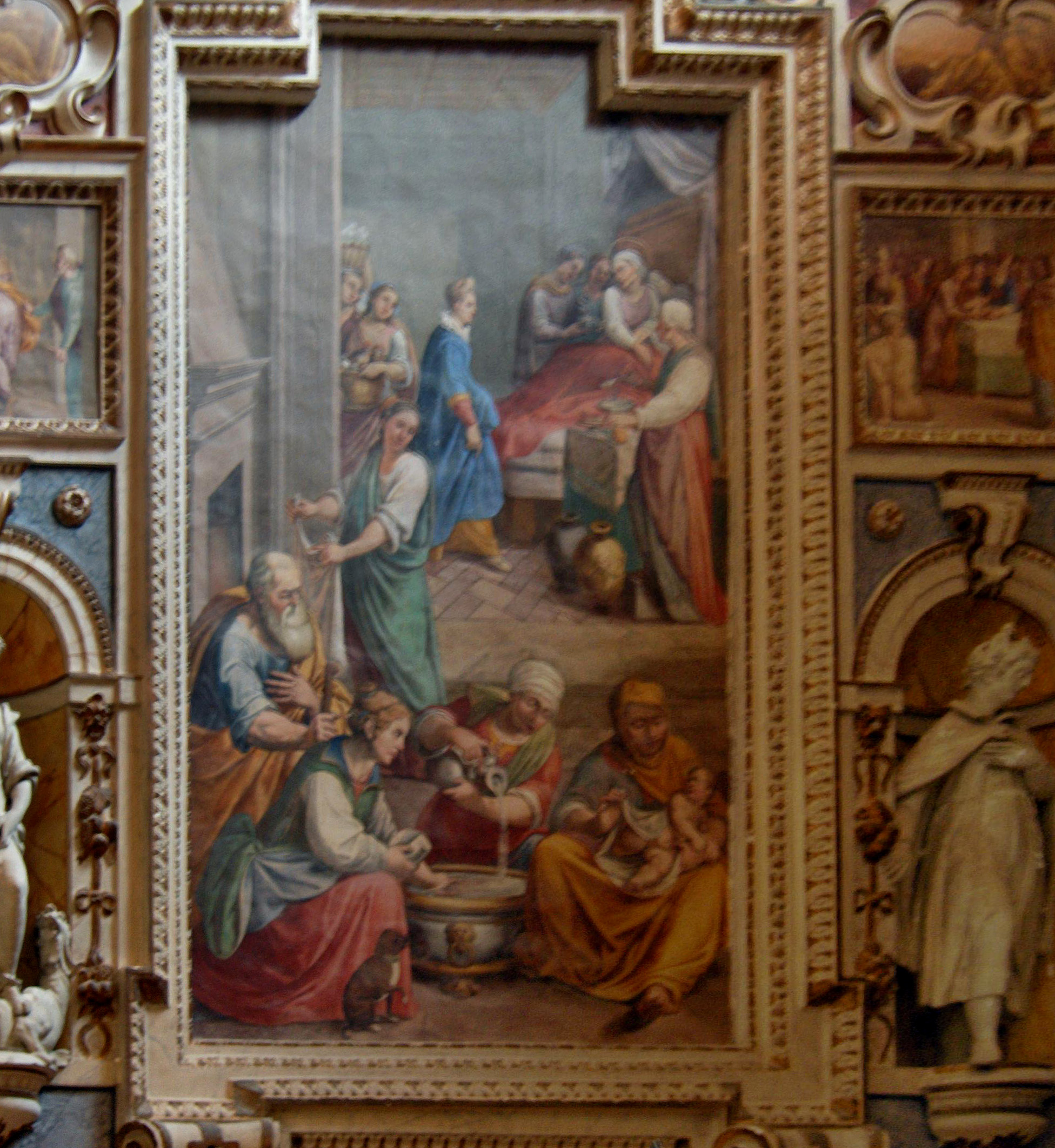 Birth of St. John the Baptist by Cesare Sermei; Chapel of St. John the Baptist; Basilica of Santa Maria degli Angeli, Assisi, Italy